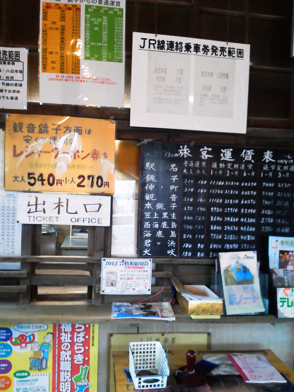 Ticket office inside Tokawa Station on the Choshi Electric Railway Line in Choshi, Chiba, Japan